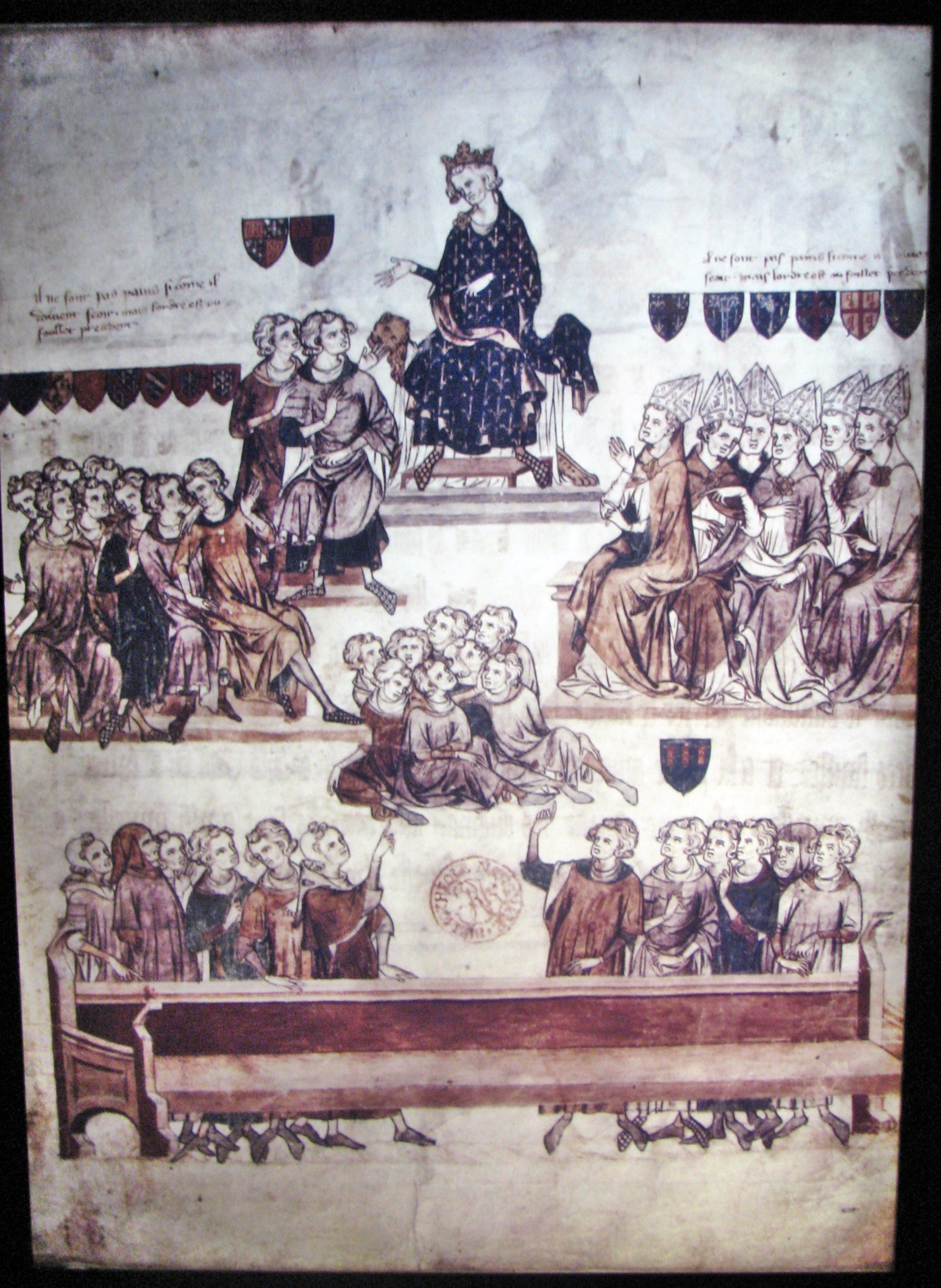 Exhibit depicting a miniature from a medieval manuscript at the Diaspora Museum, Tel Aviv - Beit Hatefutsot. Museum note says "King Philip VI with his council. Miniature from manuscript, France, 14th Century". (Photo was taken by User:Sodabottle. Looks like same miniature as )